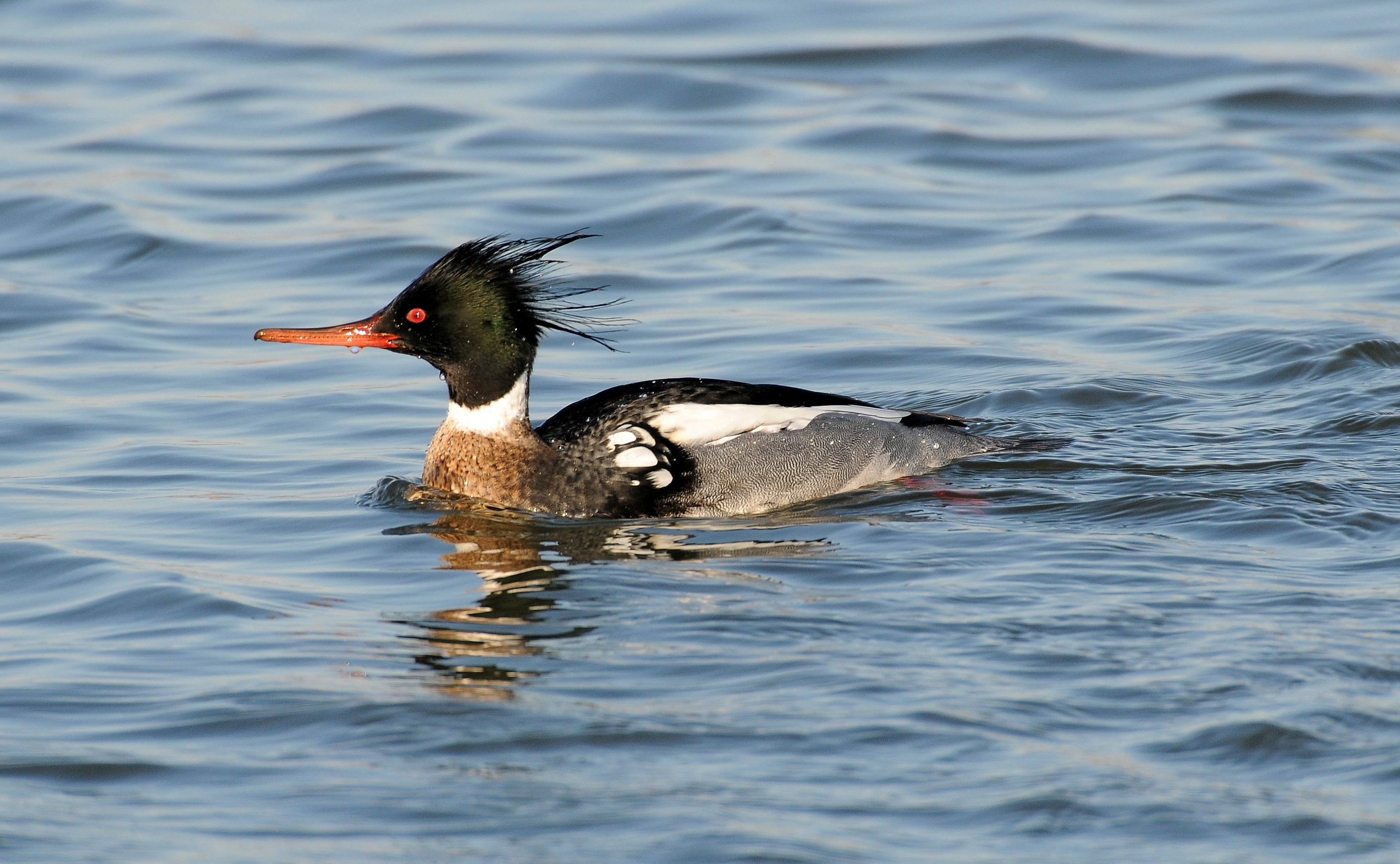 A male Red-breasted Merganser at Browns Point Marina, Keyport, New Jersey, USA in winter.